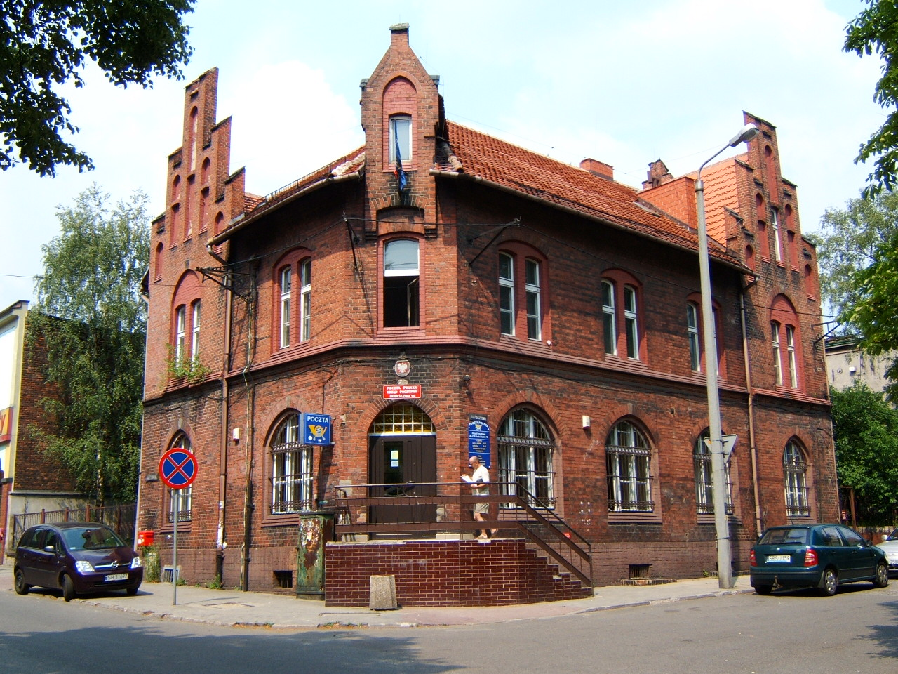 Post office in Ruda Śląska - Wirek, Upper Silesia